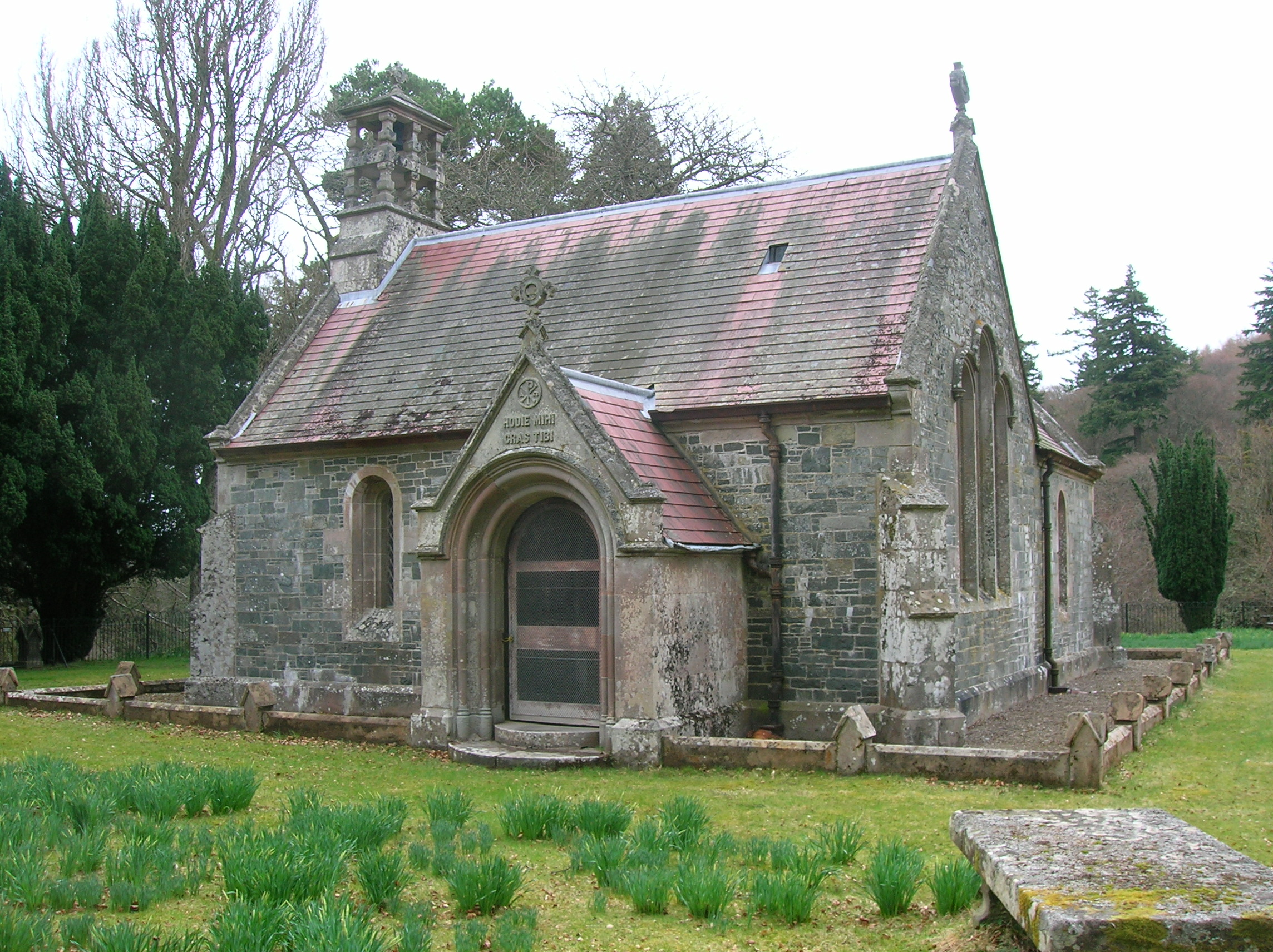 Dawyck Chapel in the Botanic Gardens, Stobo Parish, Borders, Scotland.